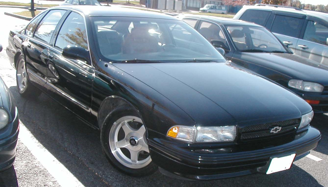 1994-1996 Chevrolet Impala SS photographed in USA.